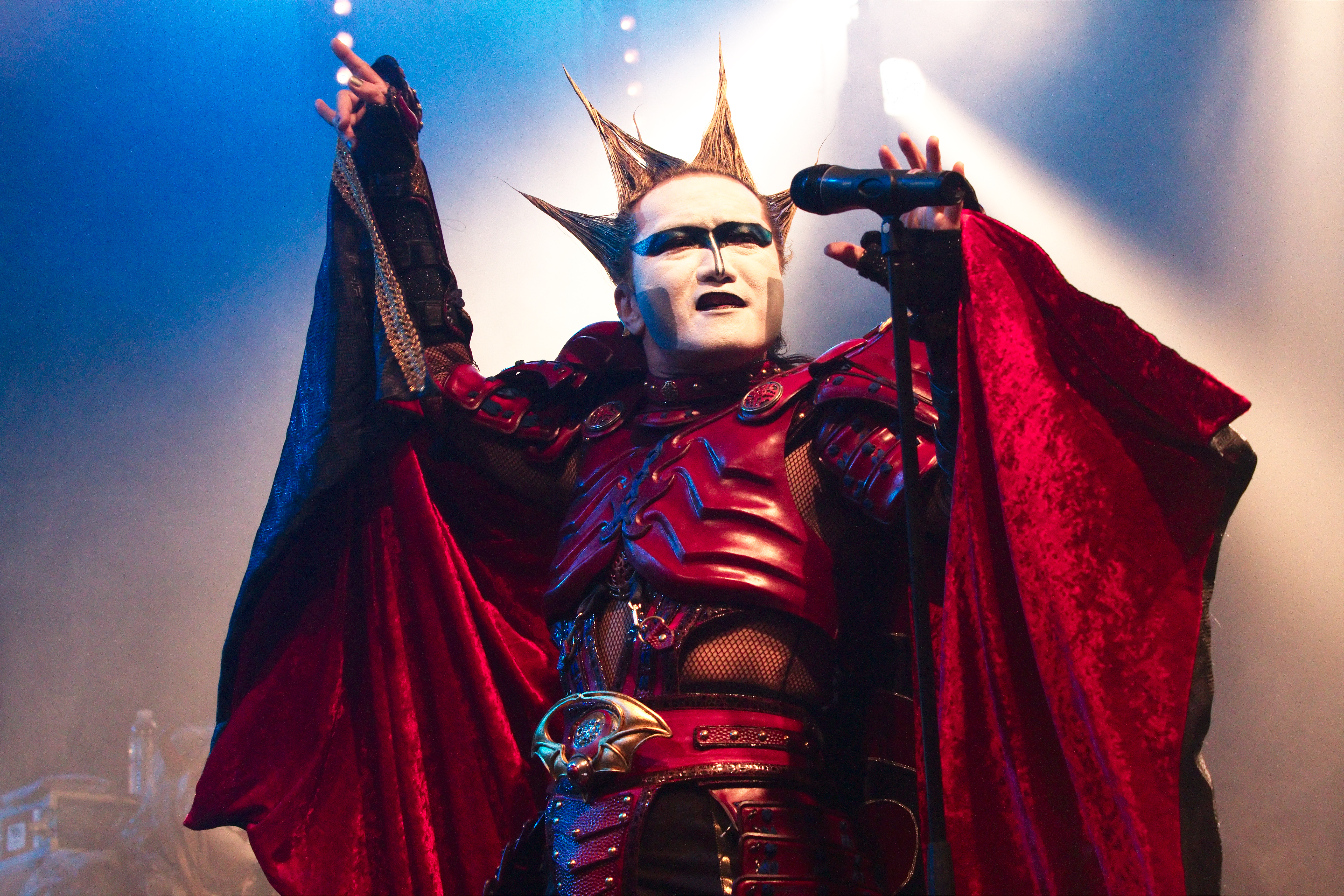 Seikima-II live at Japan Expo 2010 (Paris, France).